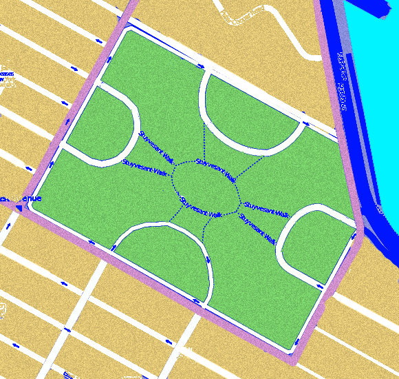 Stuyvesant Town road and path network plan showing the looped streets and the connecting paths through the open space. It is an example of the superblock concept and of the idea of filtered permeability.